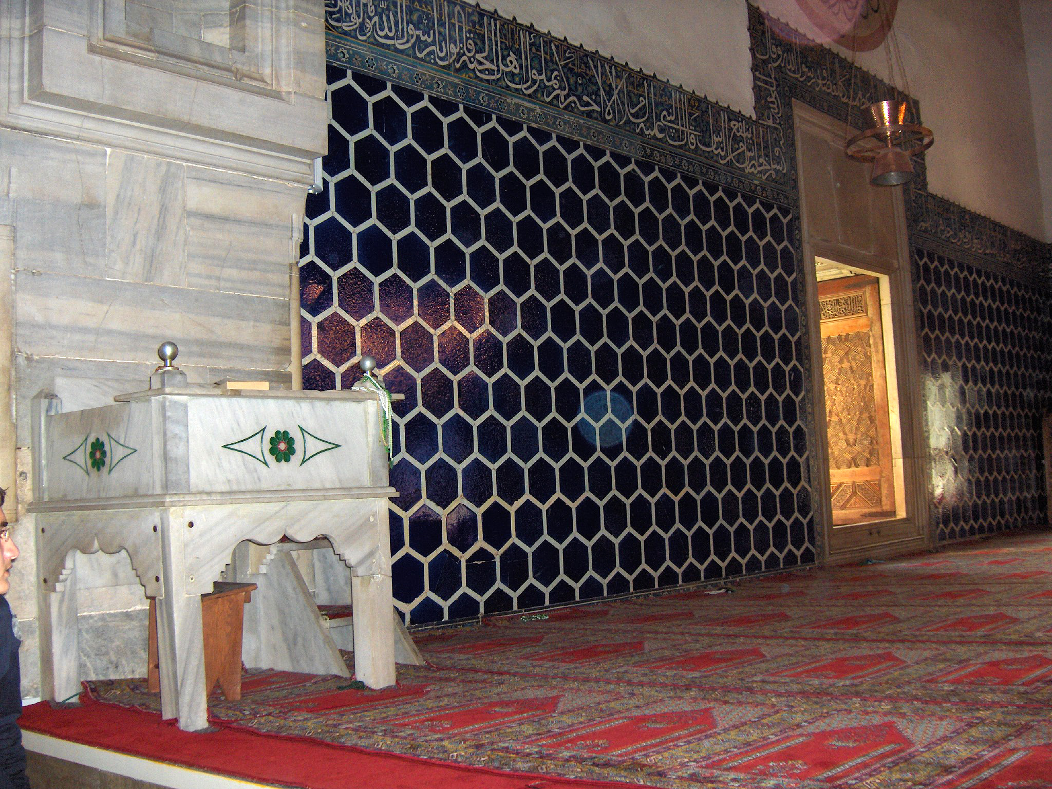 Interior view of the Yeşil Cami (Green mosque) of Bursa, Turkey